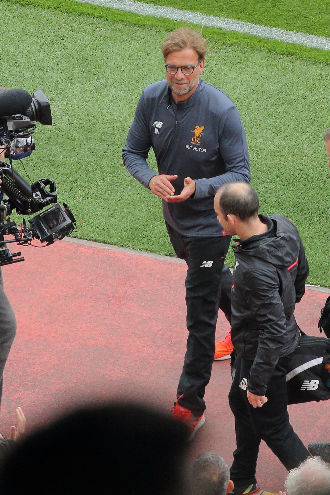 Jurgen Klopp leaves the pitch at full-time a happy man